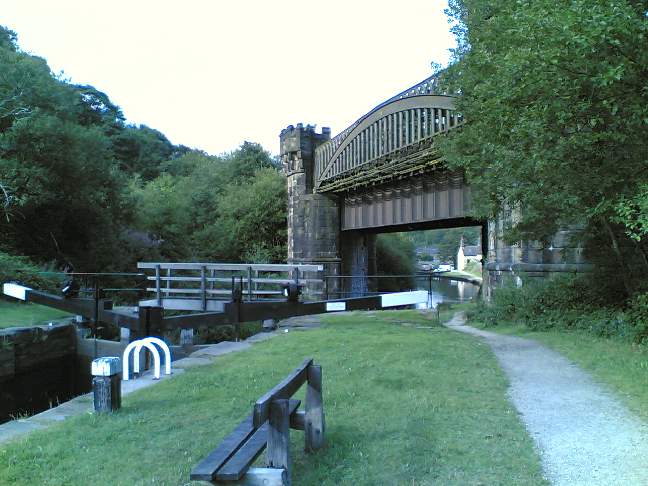 An interesting castellated railway viaduct over the Rochdale Canal, just south of Todmorden near the junction of Bacup and Rochdale Roads (A681 and A6033). Picture taken looking north towards Todmorden.